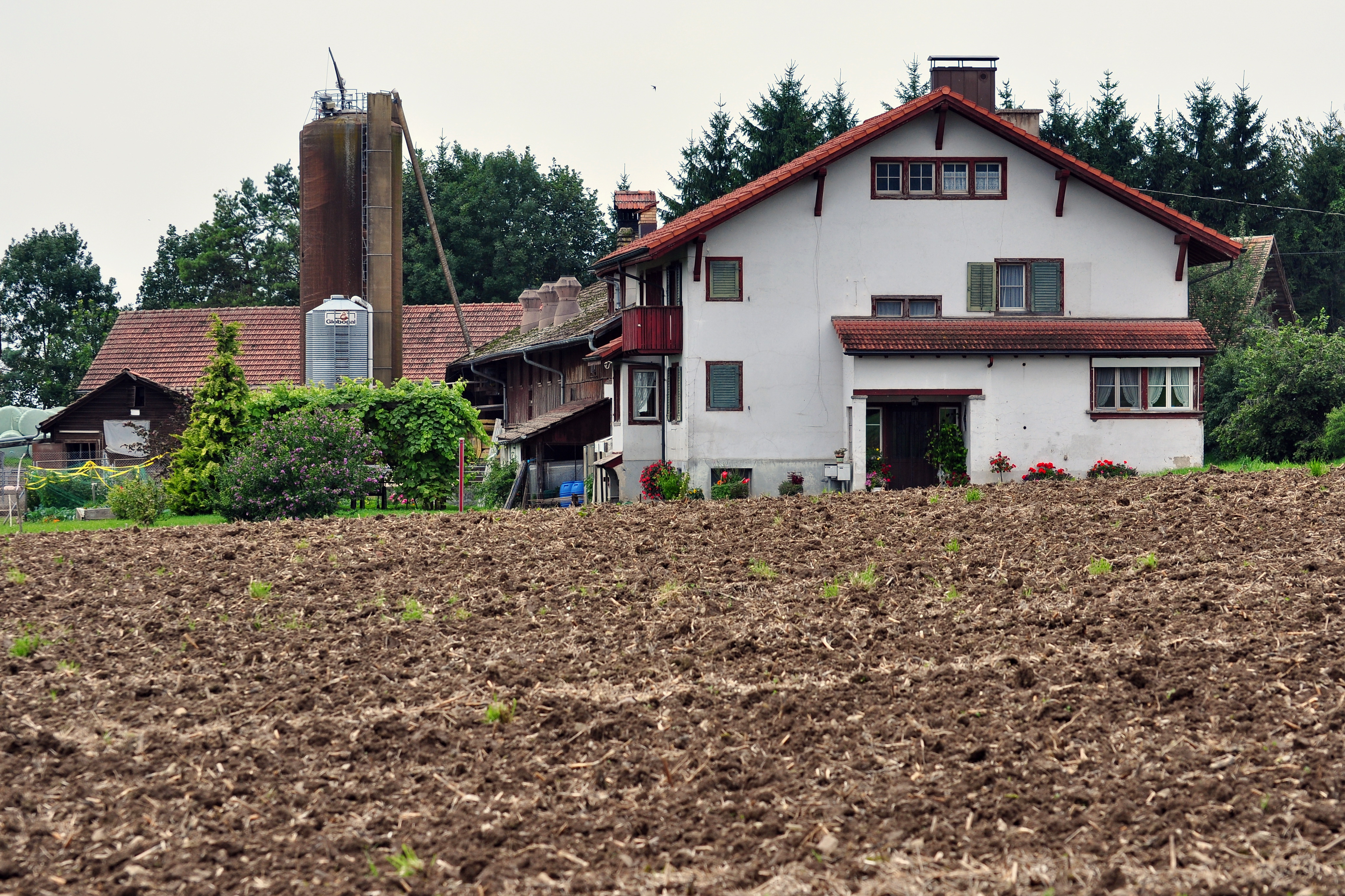 Hamlet Mädikon on hiking trail on the Albis mountain range in the canton of Zürich